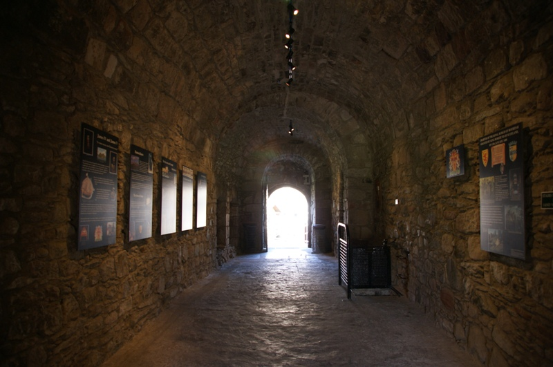 Rothesay Castle, Rothesay, Bute, Scotland. Pend.